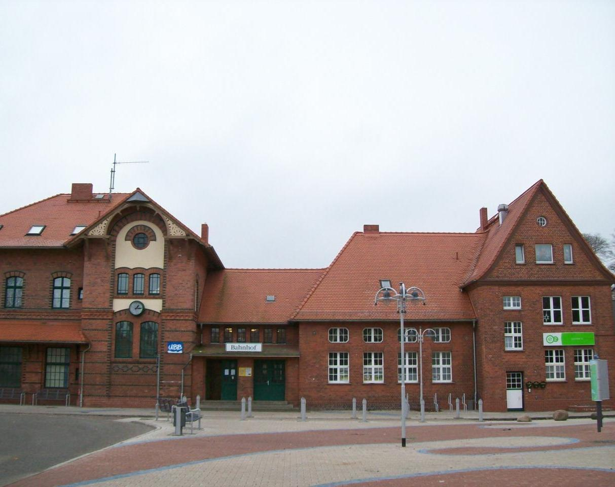 Seeb. Ahlbeck. Railway station.